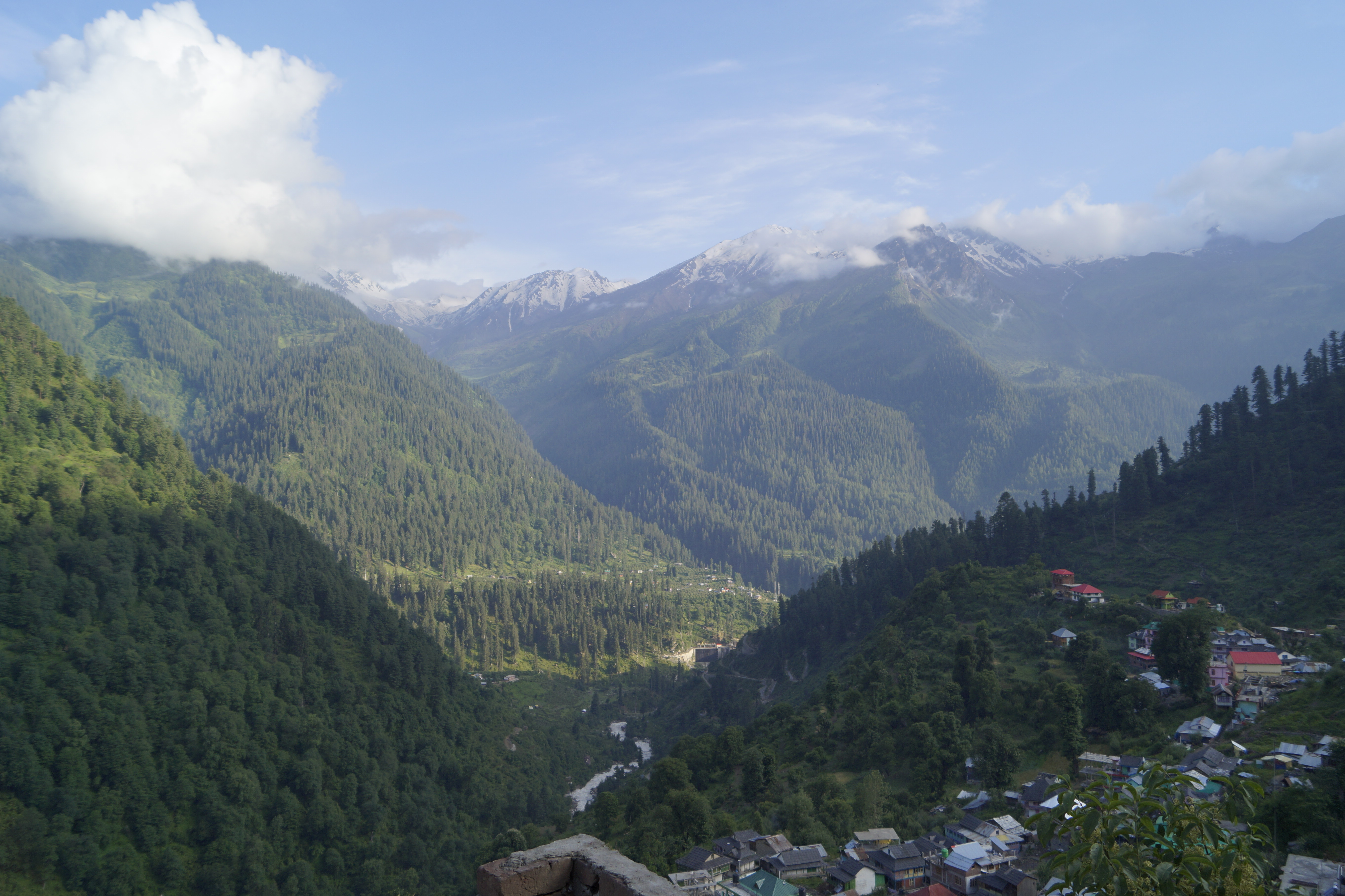 From my personal pictures.